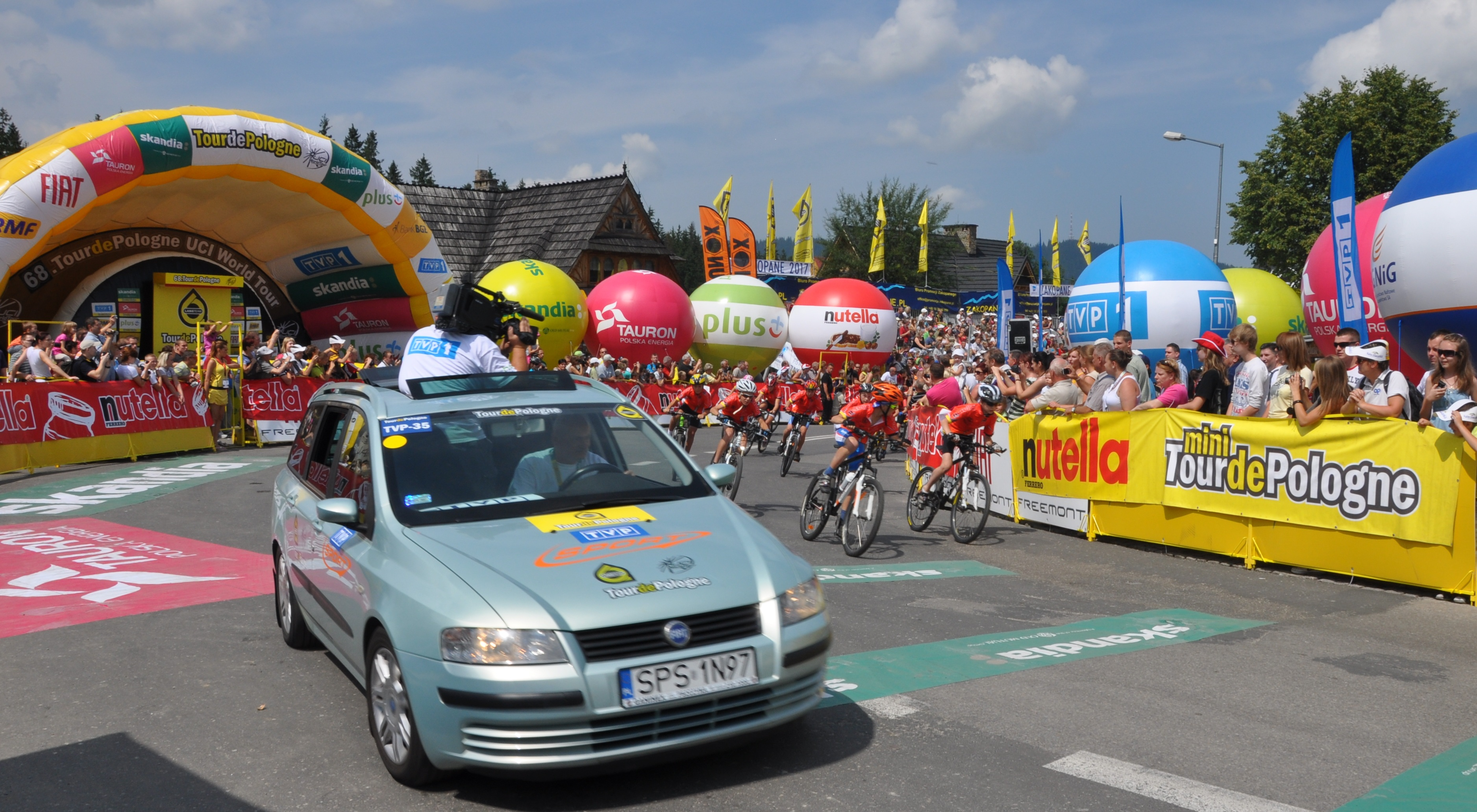 2011 Mini Tour de Pologne, Zakopane